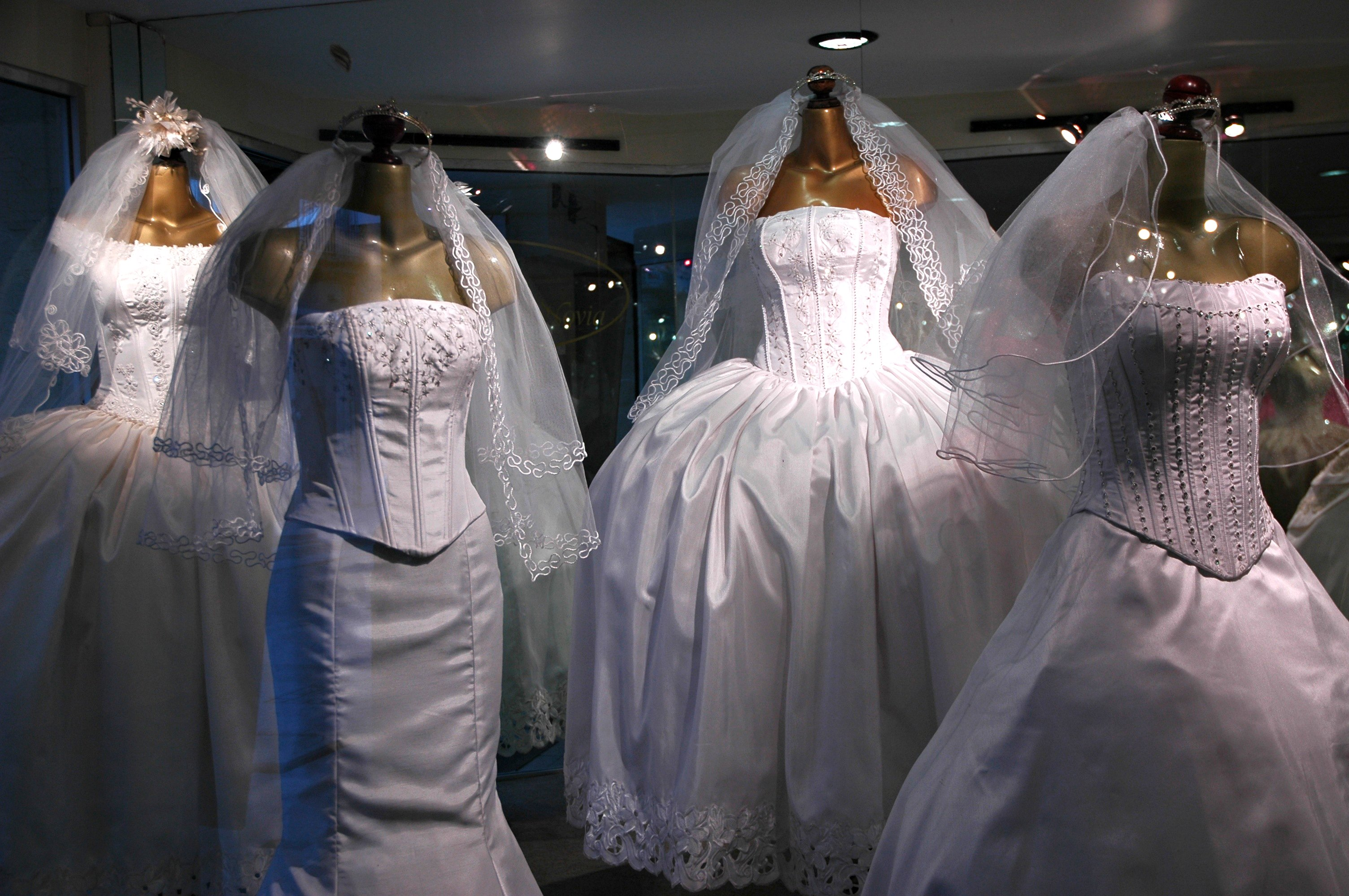 Wedding dresses in a shop display, Mexico